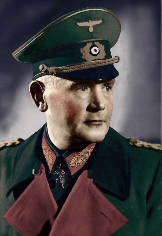 Generalfeldmarschall Werner von Blomberg